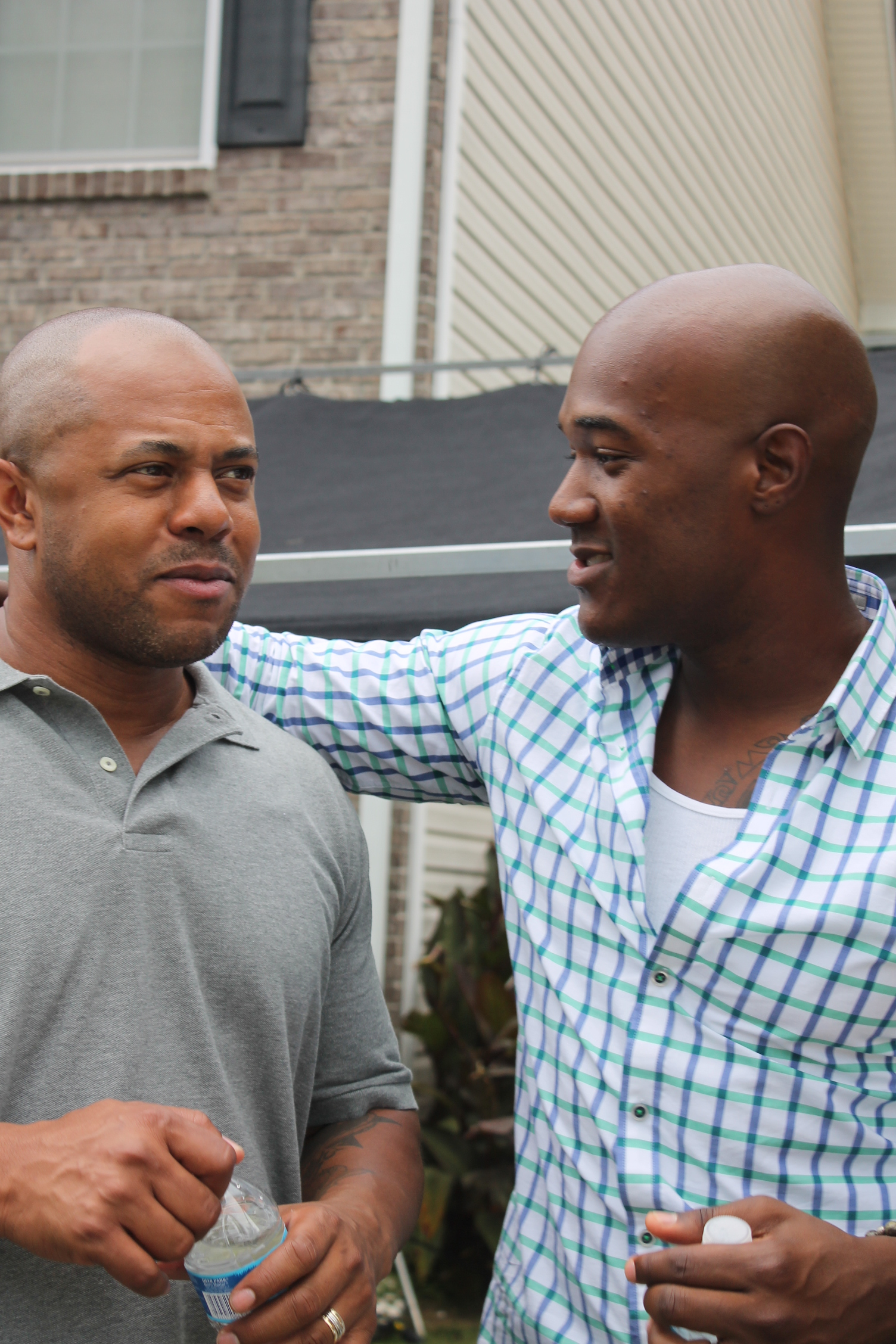 Rockmond Dunbar and Errol Sadler on Set of CurveBall (2014)